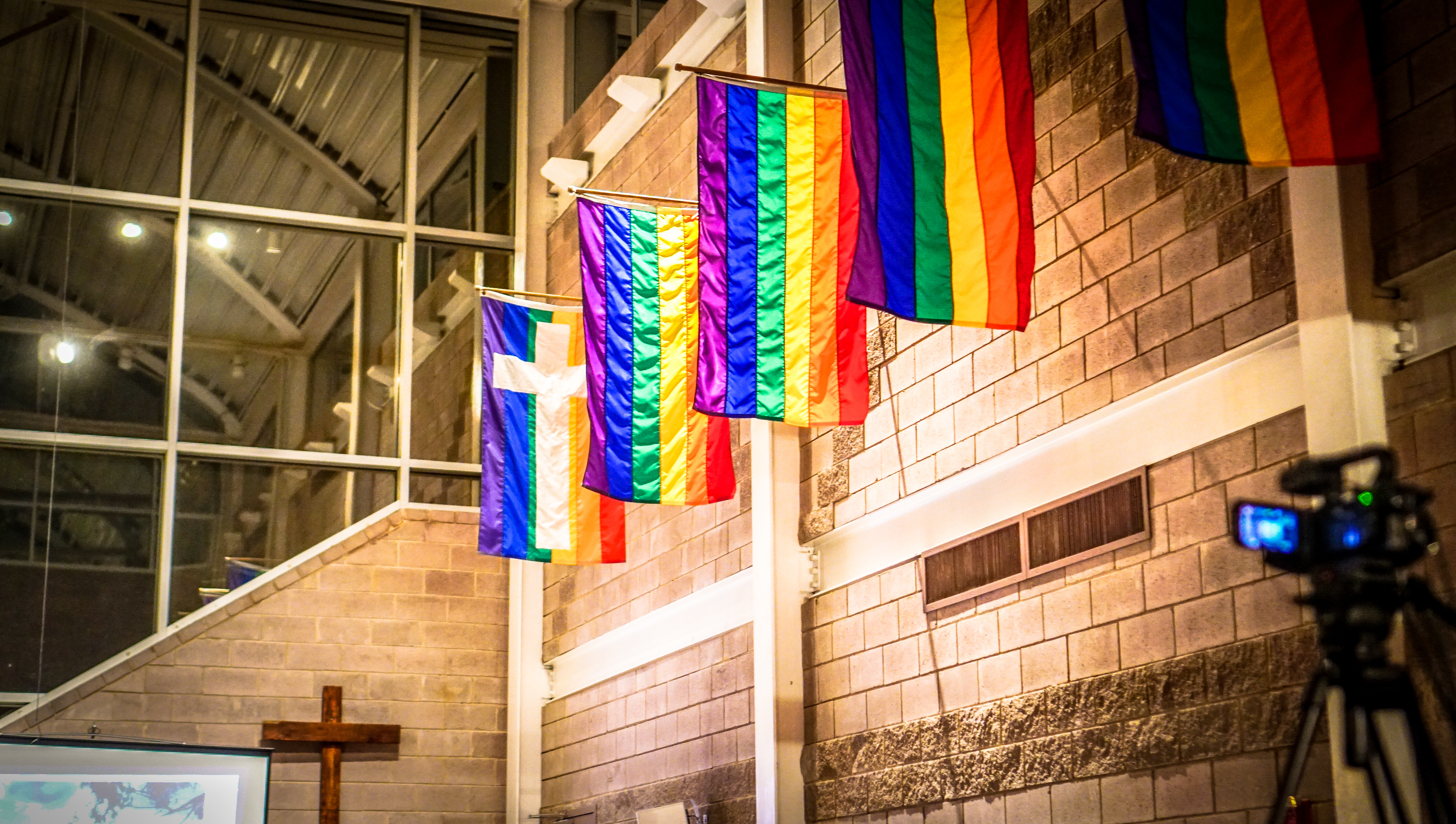 Transgender Day of Remembrance (TDOR) is an annual observance on November 20 that honors the memory of those whose lives were lost in acts of anti-transgender violence. Published in